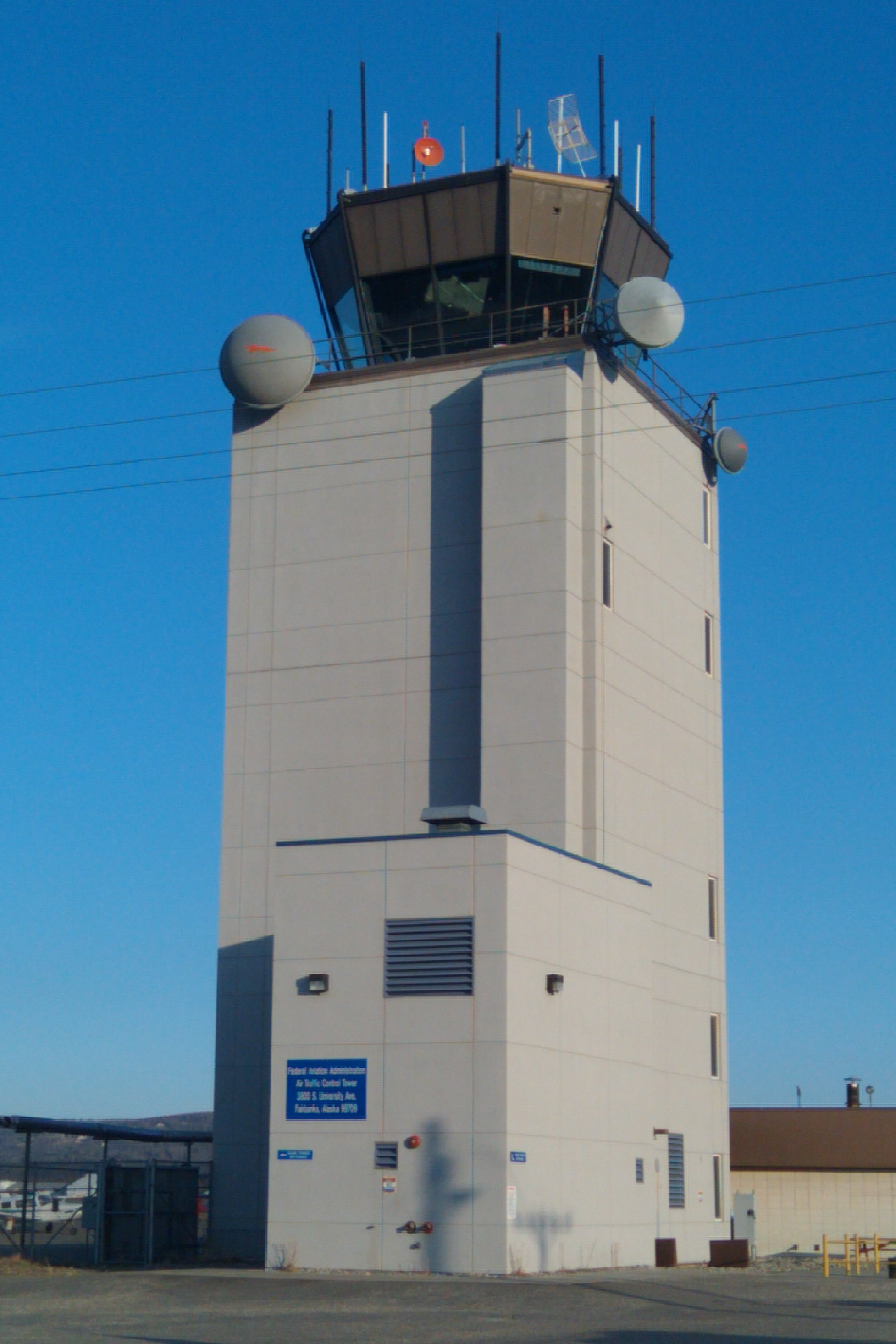 The control tower of Fairbanks International Airport, located on the airport's East Ramp.